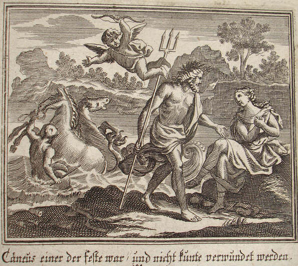 Caenis and Neptune. Engraving by Johann Ulrich Krauss for a 1690 edition of Ovid's Metamorphoses Book XII, 199-200.